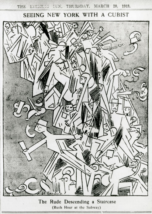 J. F. Griswold: The Rude descending a staircase (Rush-Hour at the Subway). The New York Evening Sun, 20th March 1913